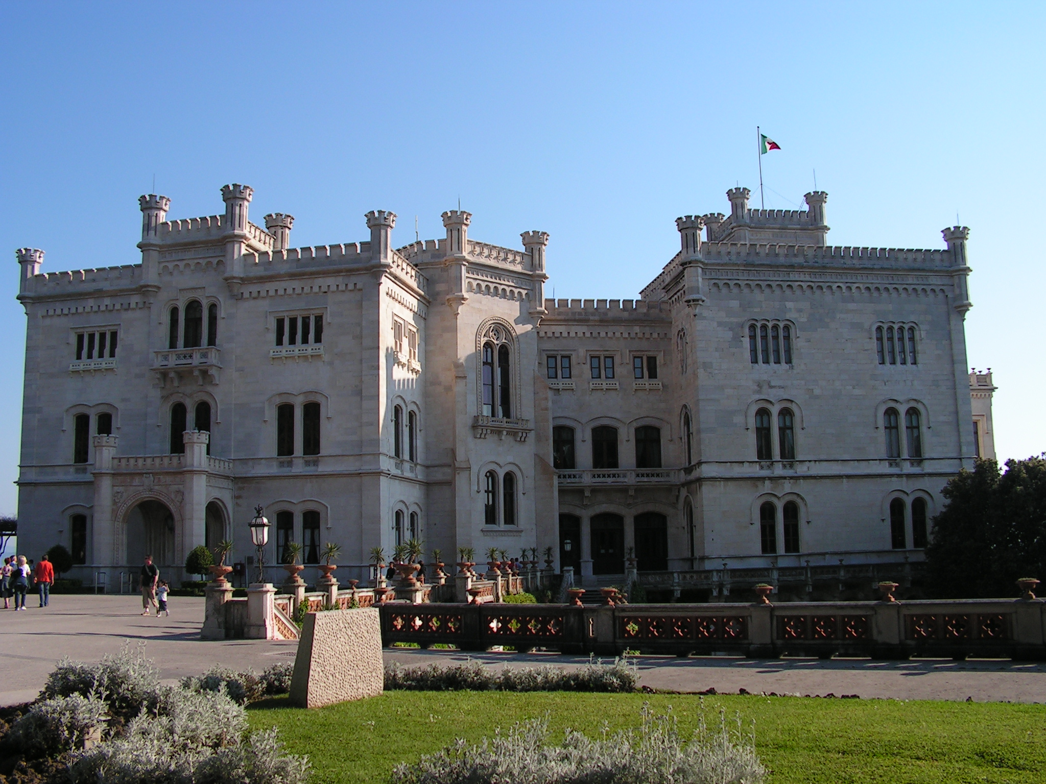 Miramar Castle (view from the entrance)